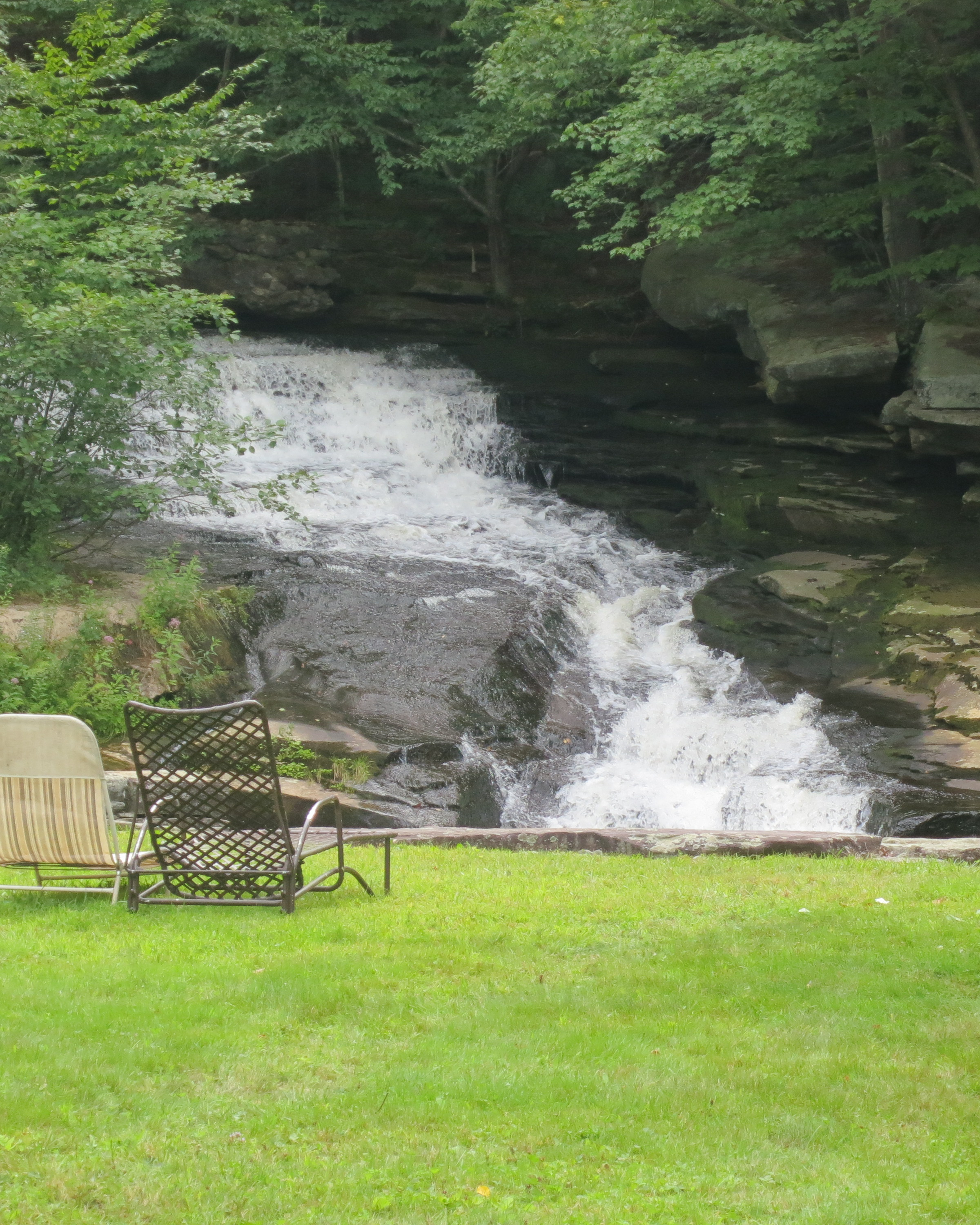 Falls from below